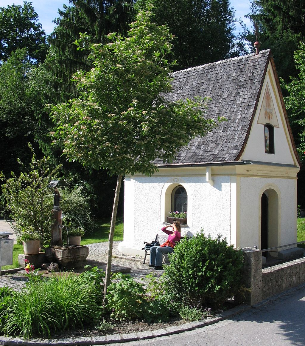 St. Leonhardsquelle, St. Leonhard, Stephanskirchen